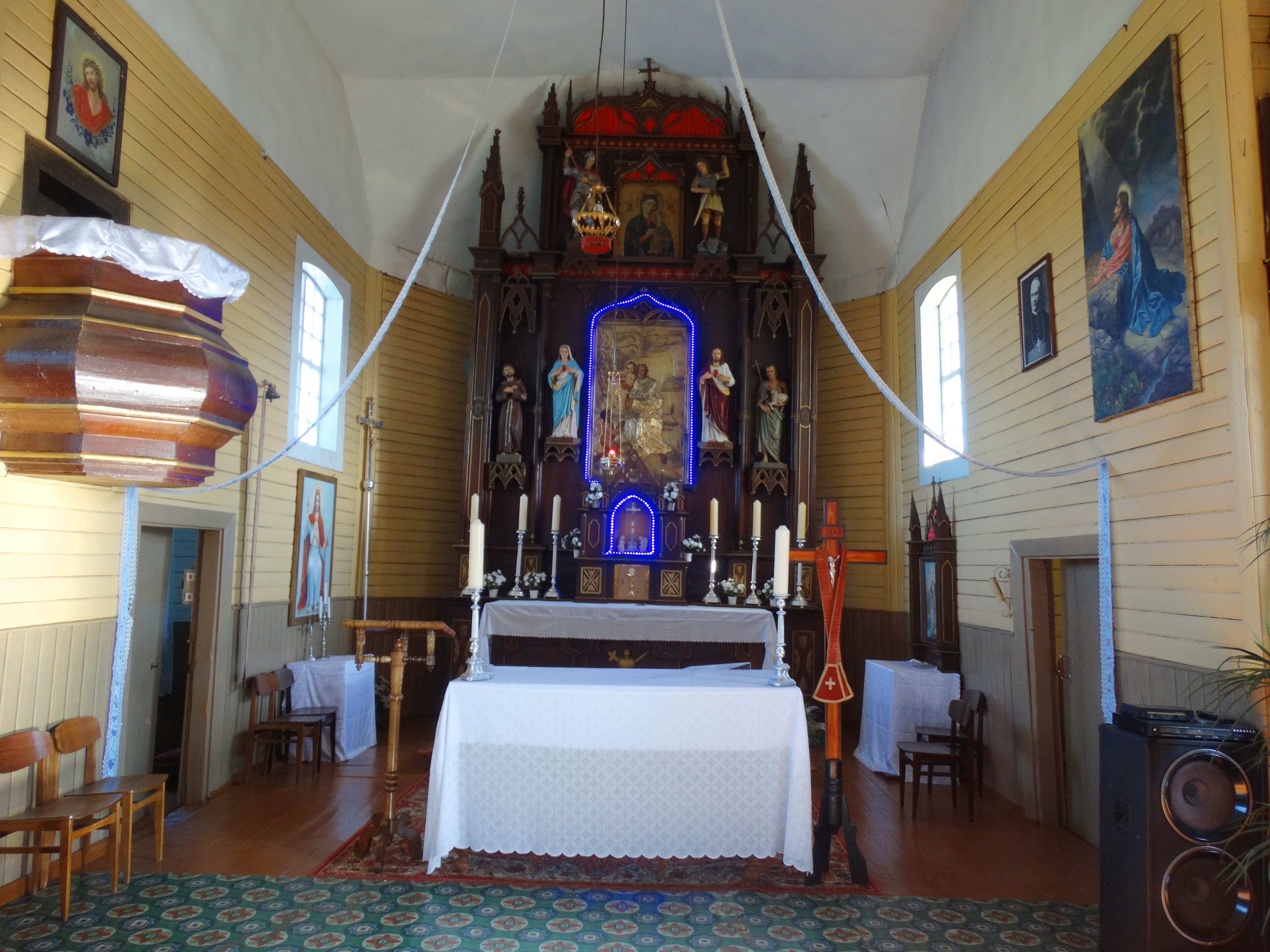 Catholic Church, Vosiliškis, Raseiniai district, Lithuania